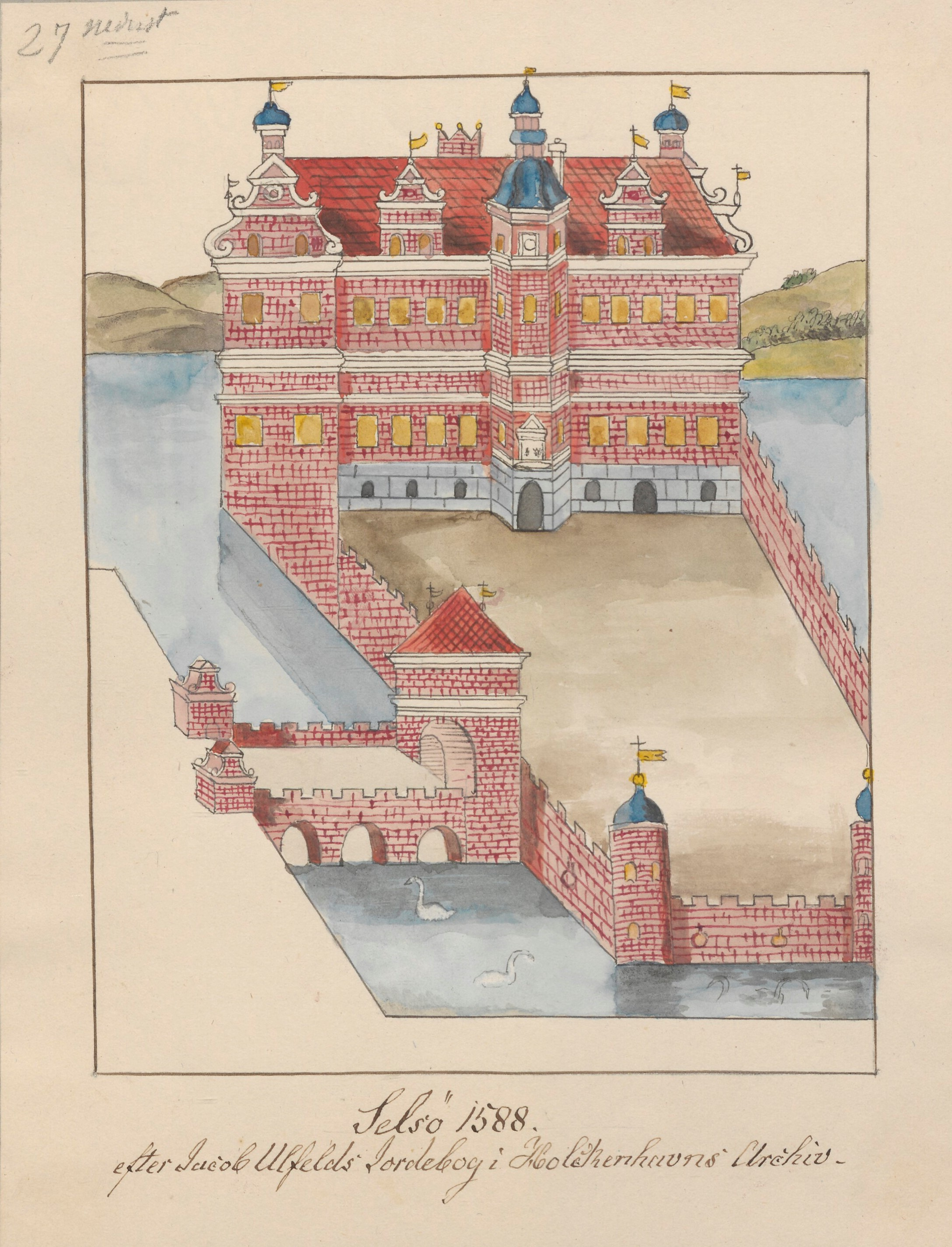 A drawing of Selsø by Johann Gottfried Burman Becker as he believed it appeared in 1477.